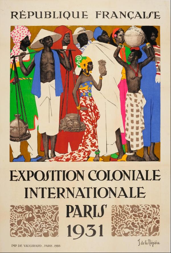 République Française. Exposition coloniale internationale Paris 1937, lithographic poster printed in Paris, Imprimerie de Vaugirard 1928.